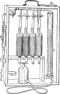 Sketch of Orsat gas analysis apparatus